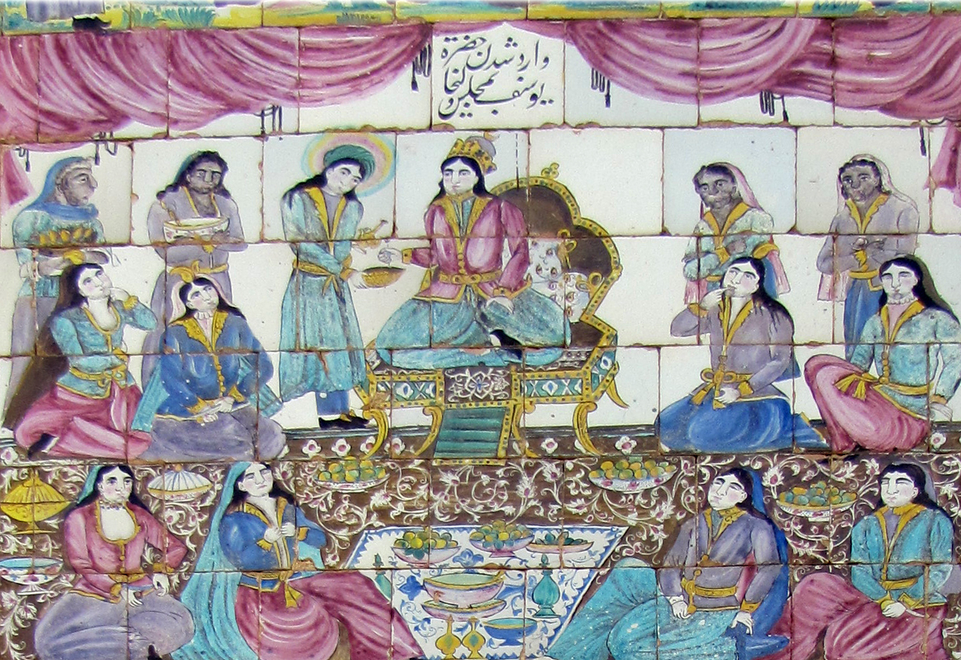 Majlis-e_Zuleika (means: Zuleika Ceremony) is caption of the painting on tiles of Mo'avin-Almamalik Tekyeh in Kermanshah city.